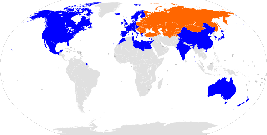 European Bank for Reconstruction and Development member states